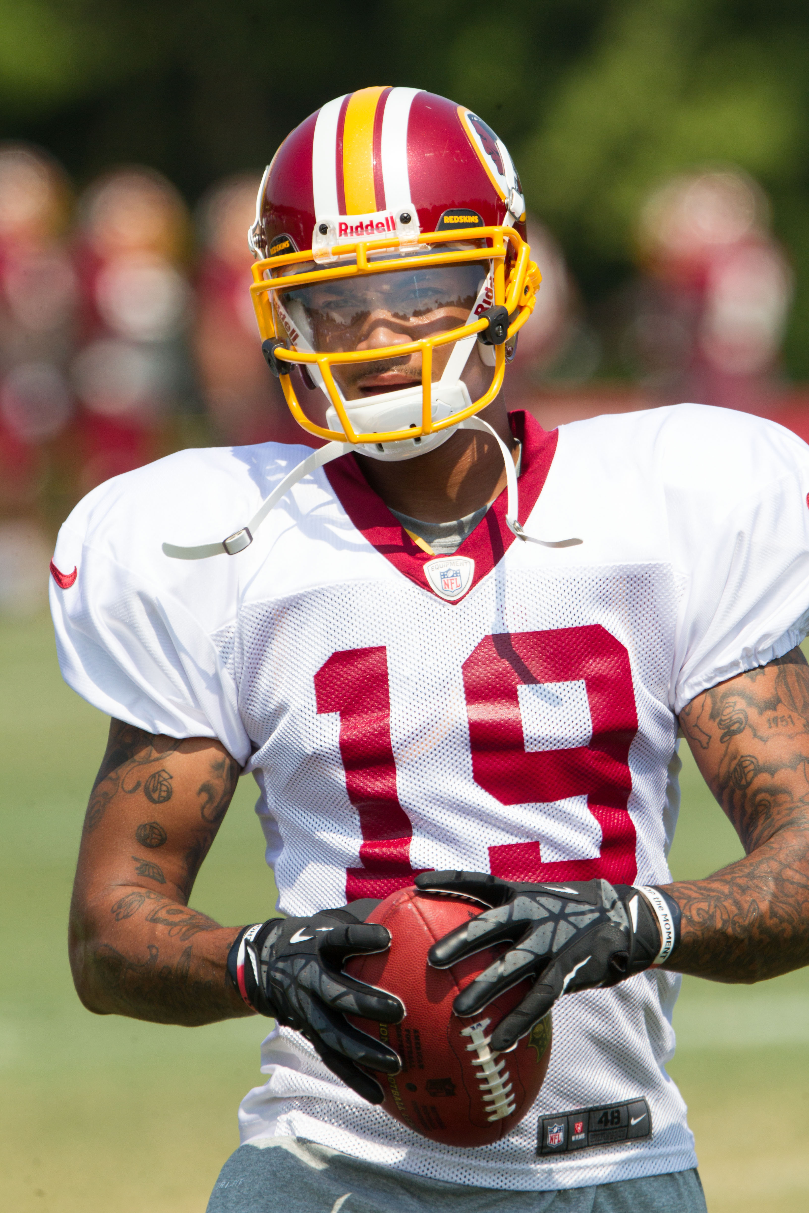 Dezmon Briscoe at Washington Redskins Training Camp August 1, 2012